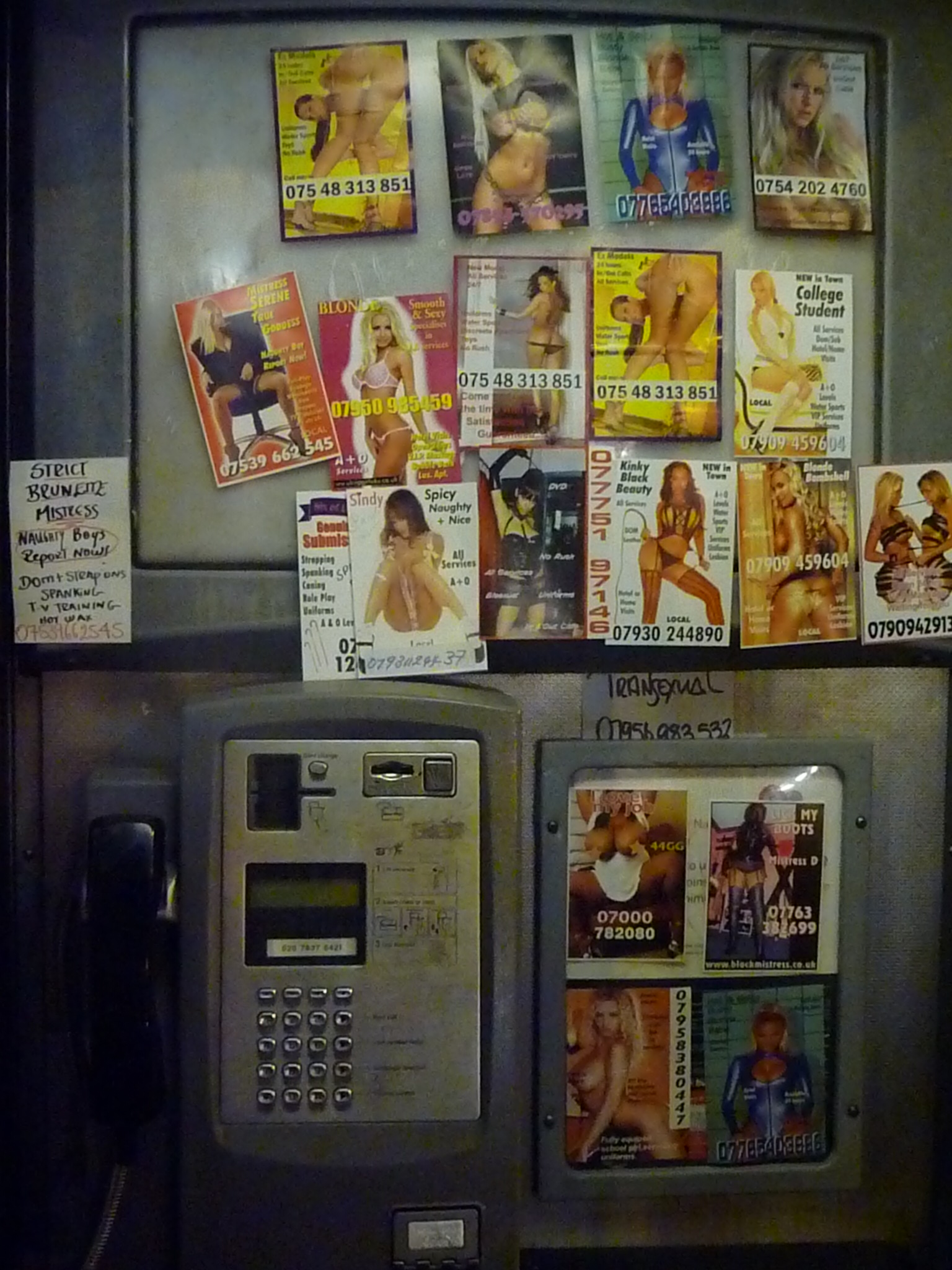 A phone box in London, complete with adverts.